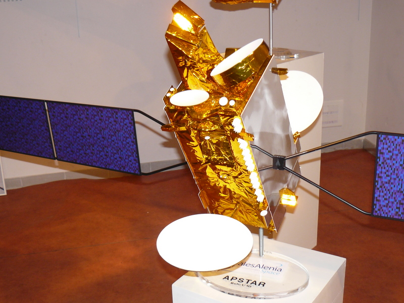 1/10th scale mockup of Apstar-6 satellite, a Spacebus 4000C2